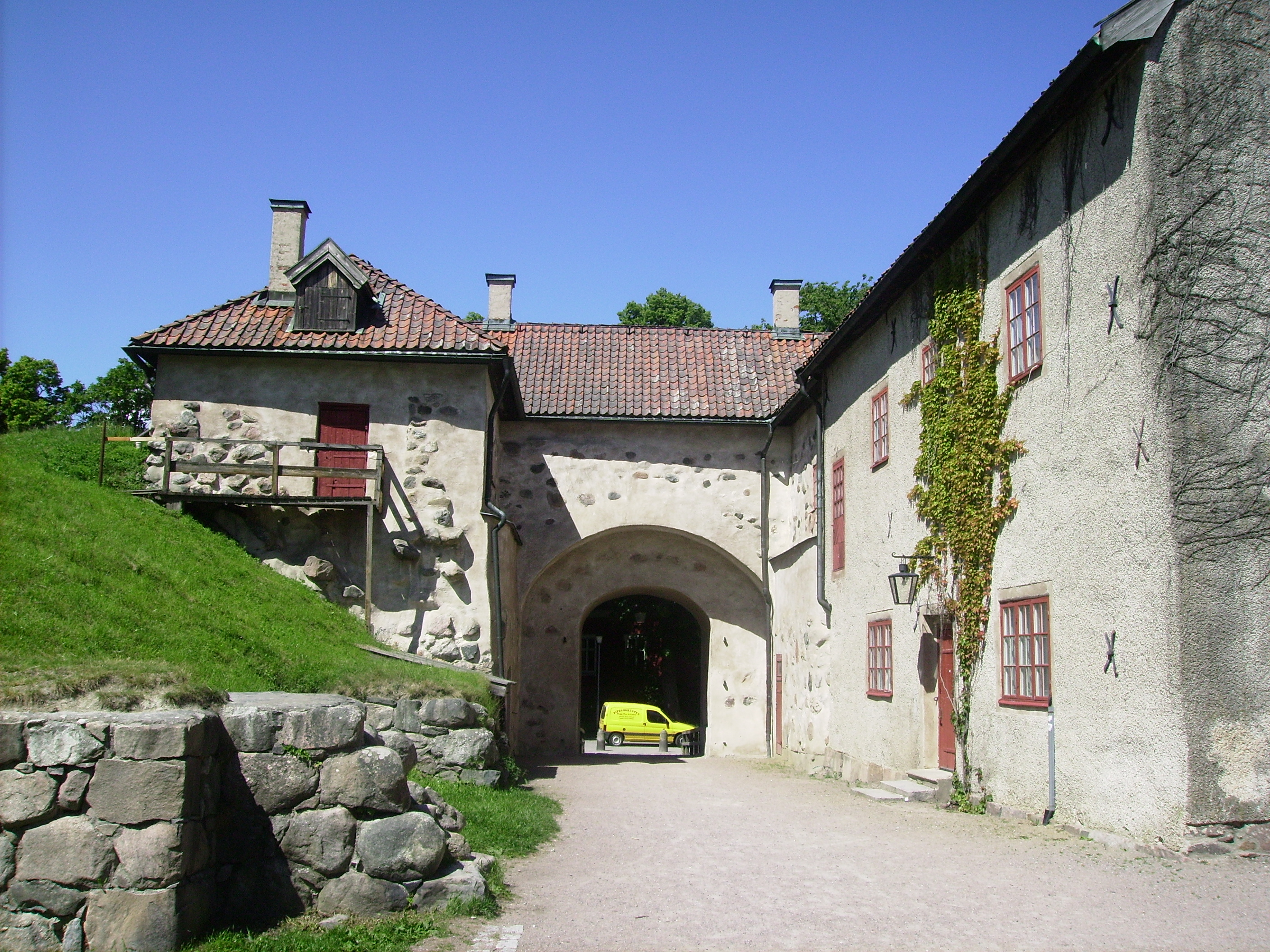 Picture of Nyköpingshus